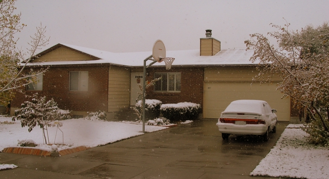 Took picture myself. Rambler-style house. I release all rights to photo. For many a "Rambler" is different than a Ranch House, and seen as lacking an attached garage. However in the eastern US the two terms are often used interchangeably unlike in the western states where they are usually distinct styles.) Point taken.--TrustTruth 19:03, 1 March 2007 (UTC)